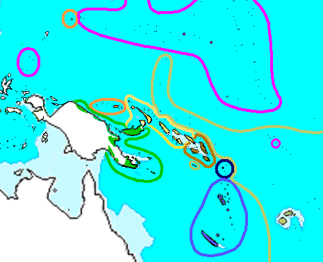 Oceanic languages from Melanesia.